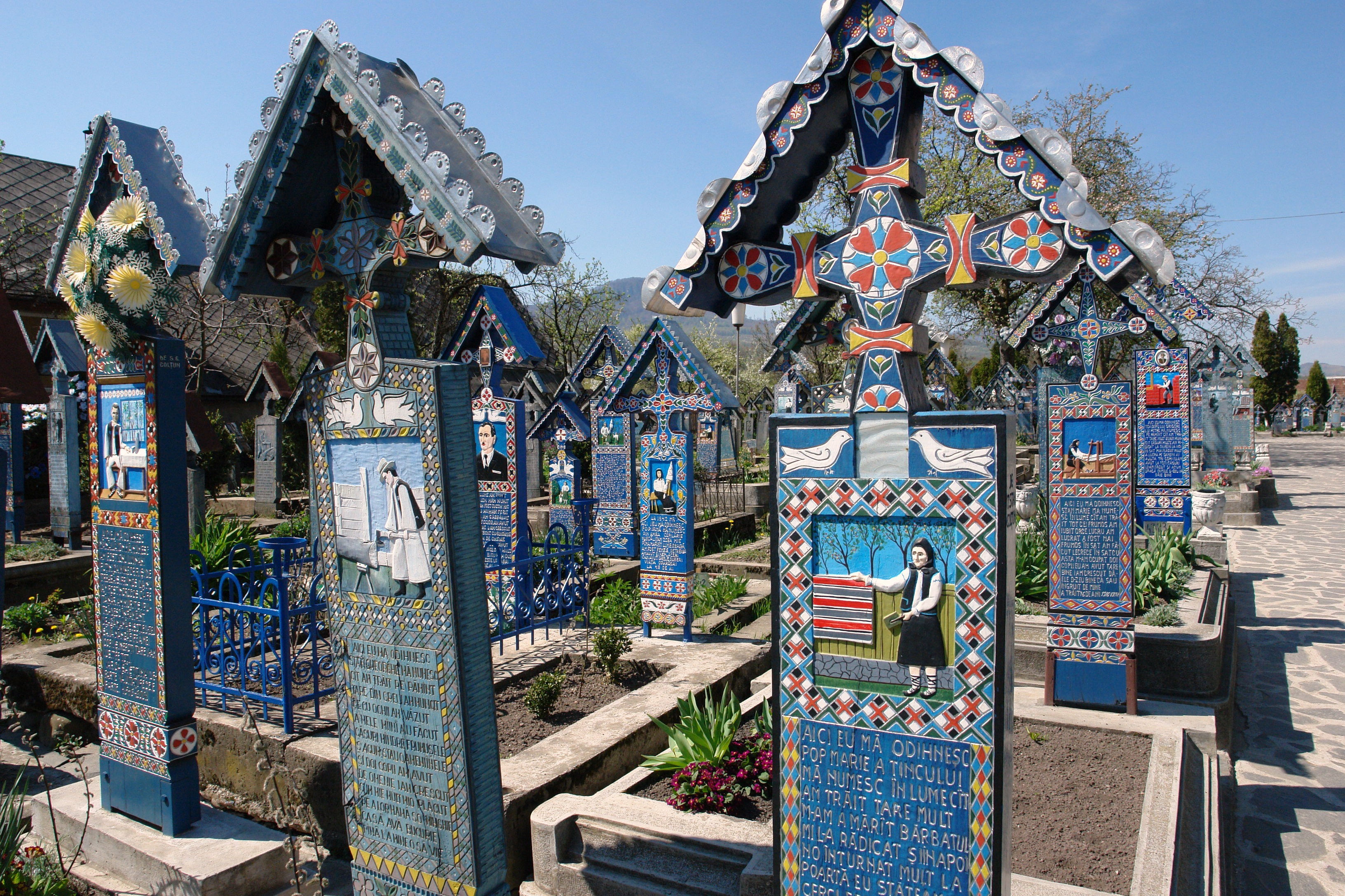 Merry Cemetery (Romanian: Cimitirul Vesel) This photo has been taken in the country: Romania